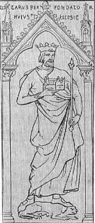 Chlothar I